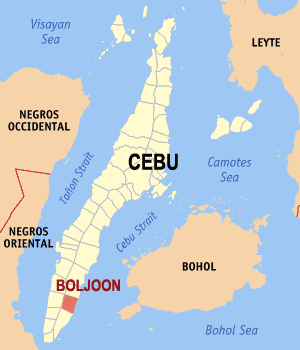 Map of Cebu showing the location of Boljoon